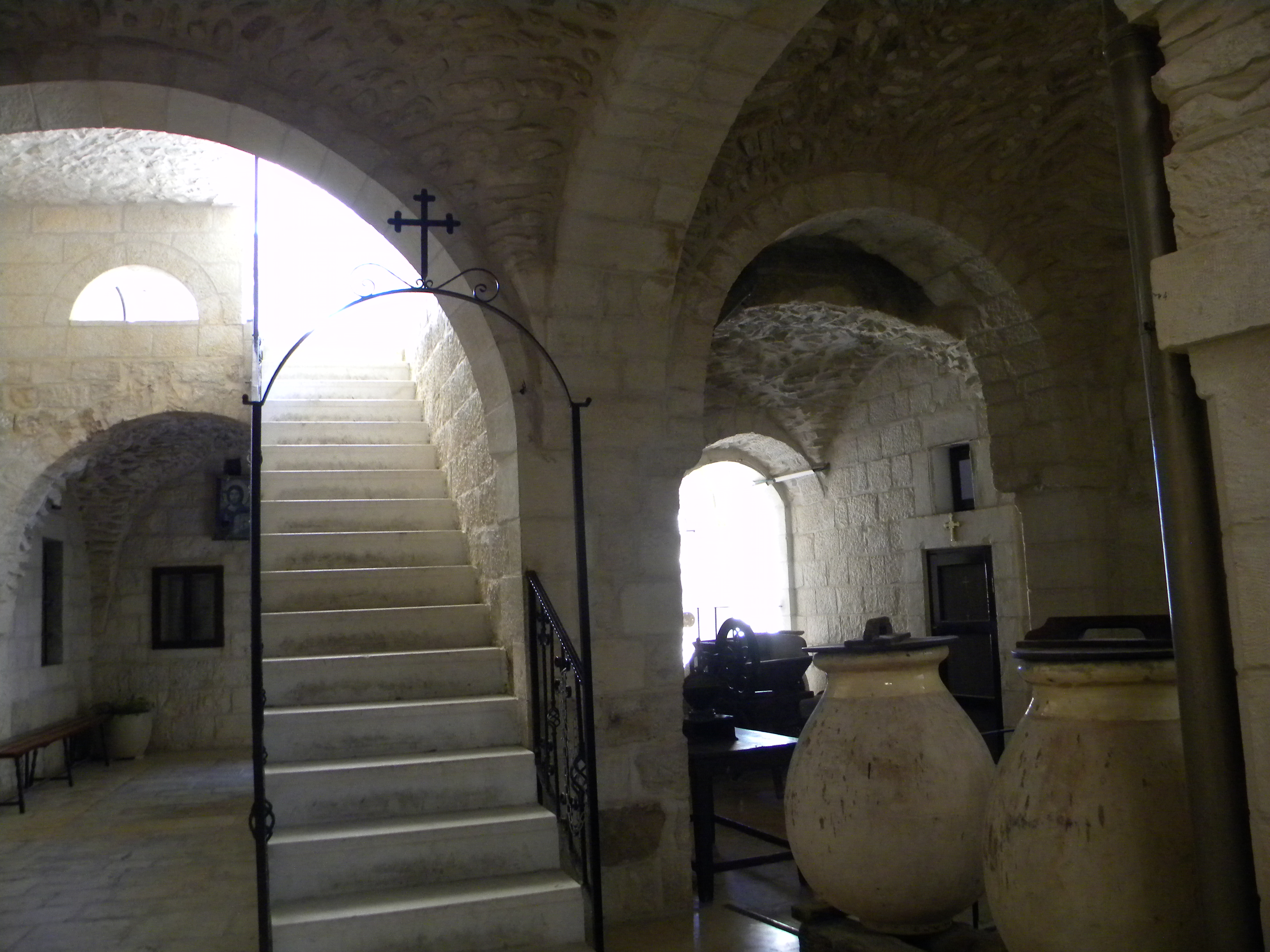 Palestine, Wadi Qelt (Valea Hozevei)(Sf. George's Monastery with relics of Sf. Ioan Iacob Hozevitul)